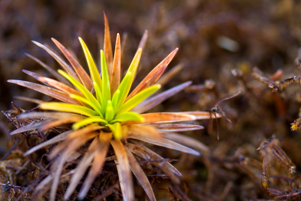 Paepalanthus convexus of Mount Roraima, Venezuela